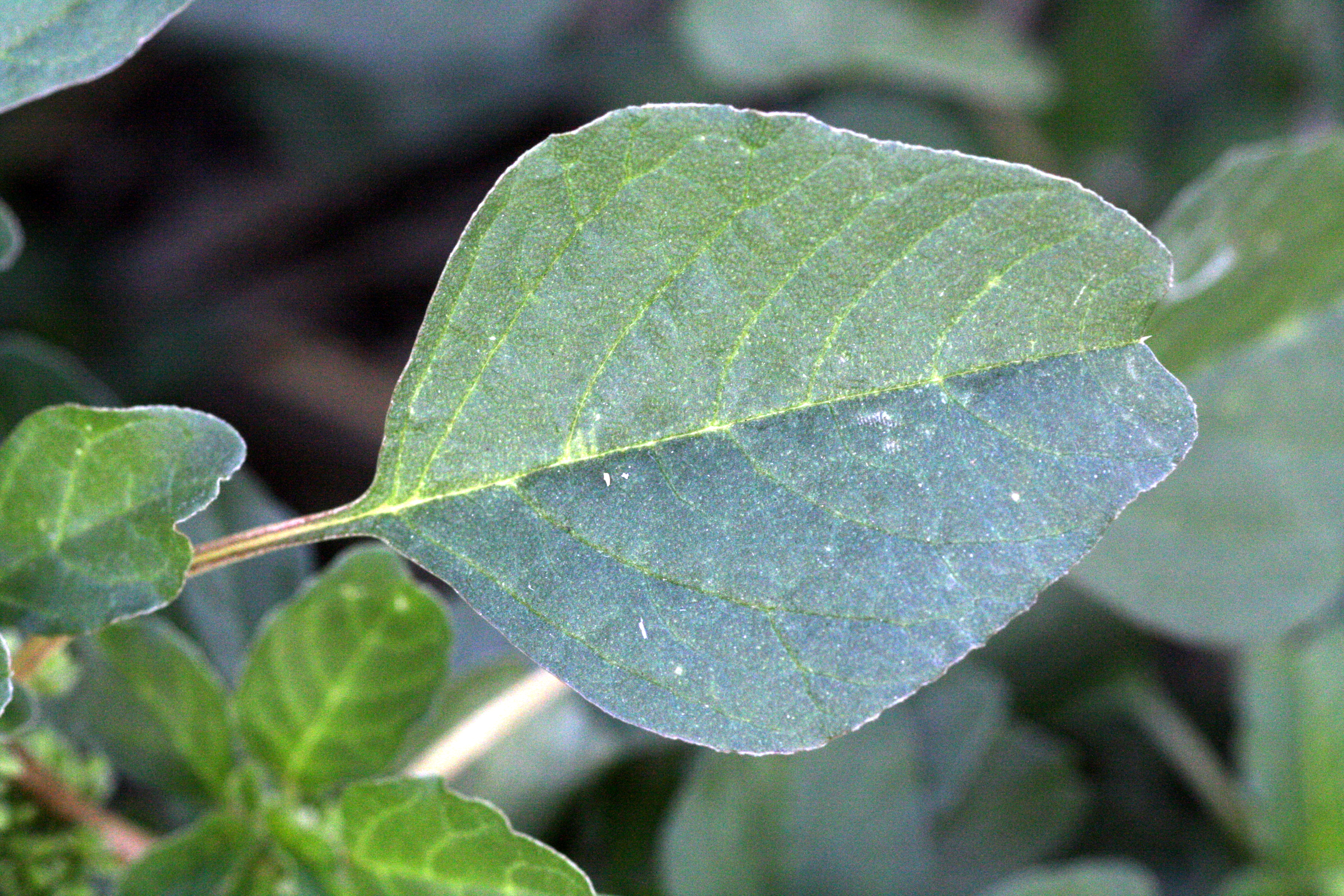 Amaranthus blitum subsp. oleraceus (Syn. A. lividus)